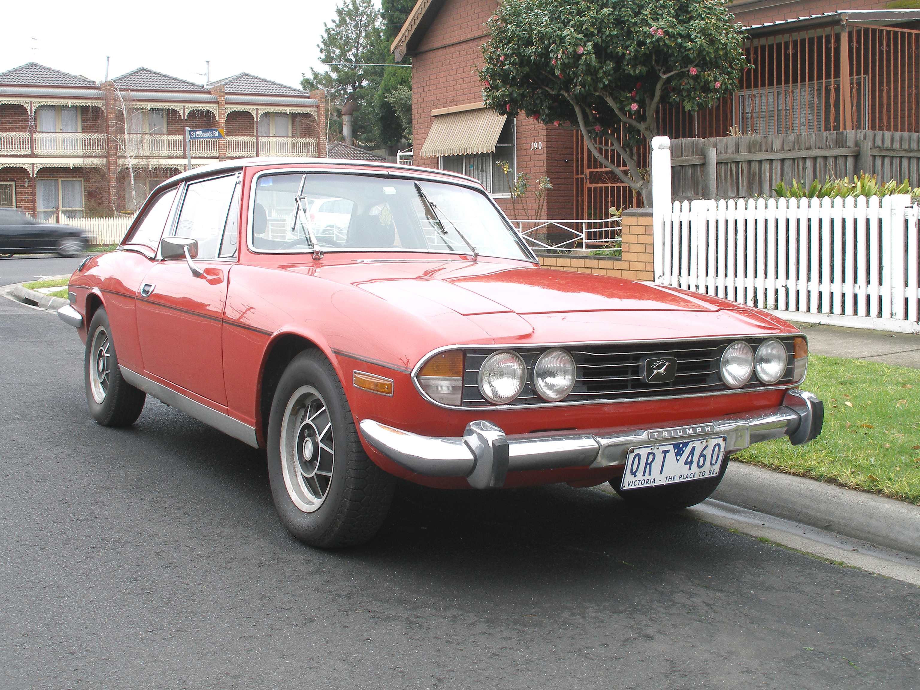 A Triumph Stag - niiiiiiiiiiiiiiiice cars... A fellow my dad used to work with suffered a work-related injury in the late 1970's; with the pay-out, he bought TWO of these - a red one for himself, and a lemon-coloured one for his twin brother! Note the twisted front bumper - when viewed head-on, you could see that the whole front of the car was slightly twisted. Still absolutely gorgeous, though. Can't decide on whether to buy one of these, or a Jaguar XJS...